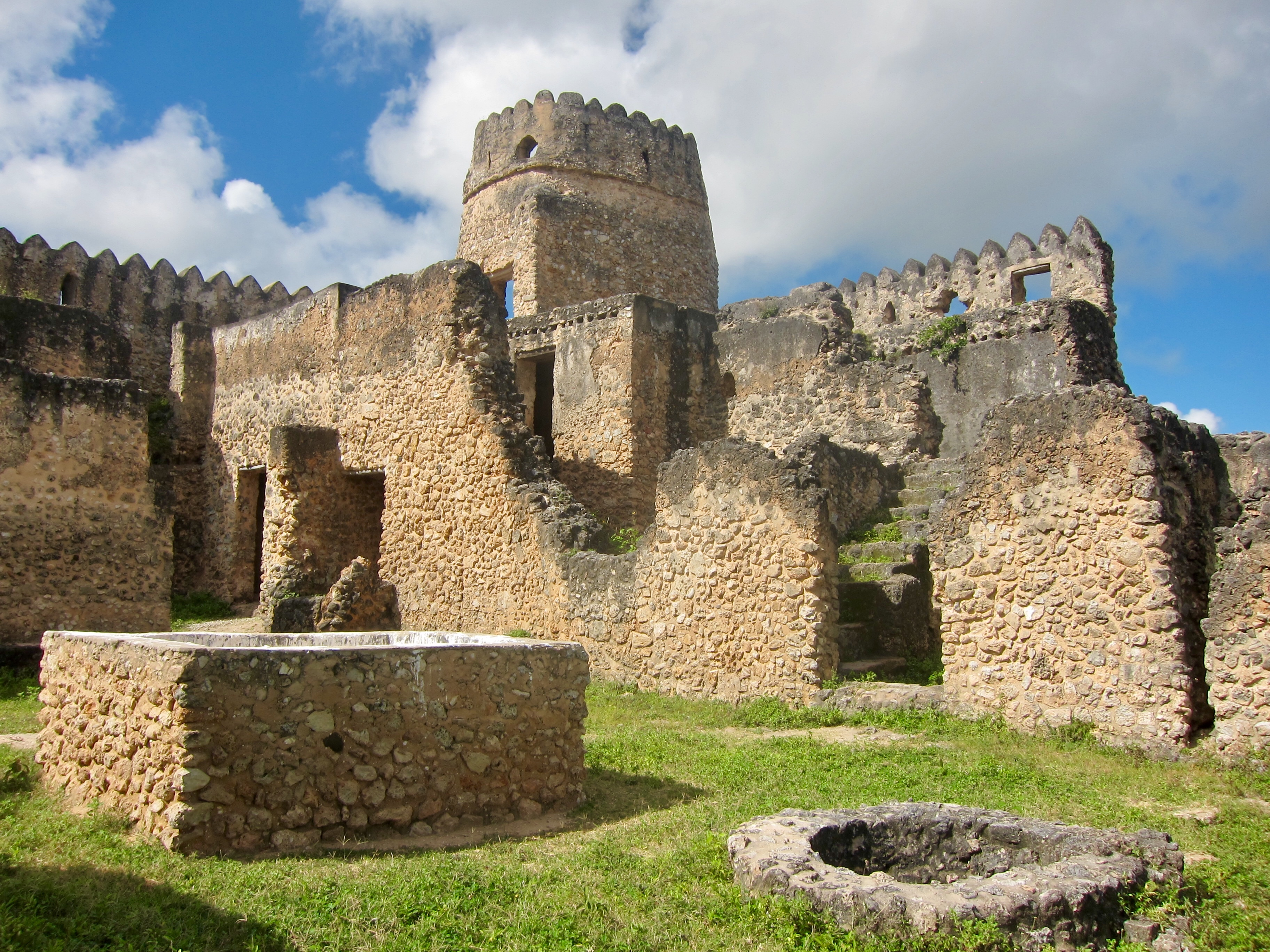 The Gereza or also called the Great Fort at the banks of the indian ocean.